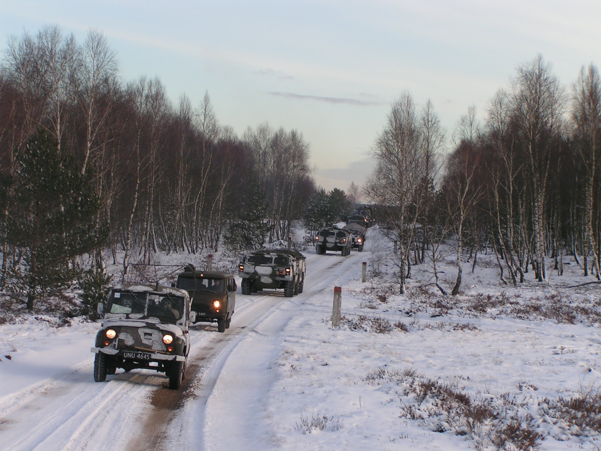 10-12.02.2004 - fire training and its live practice in winter in Poland within Drawsko Training Area. Winter camouflage visible. Fire battery on march.